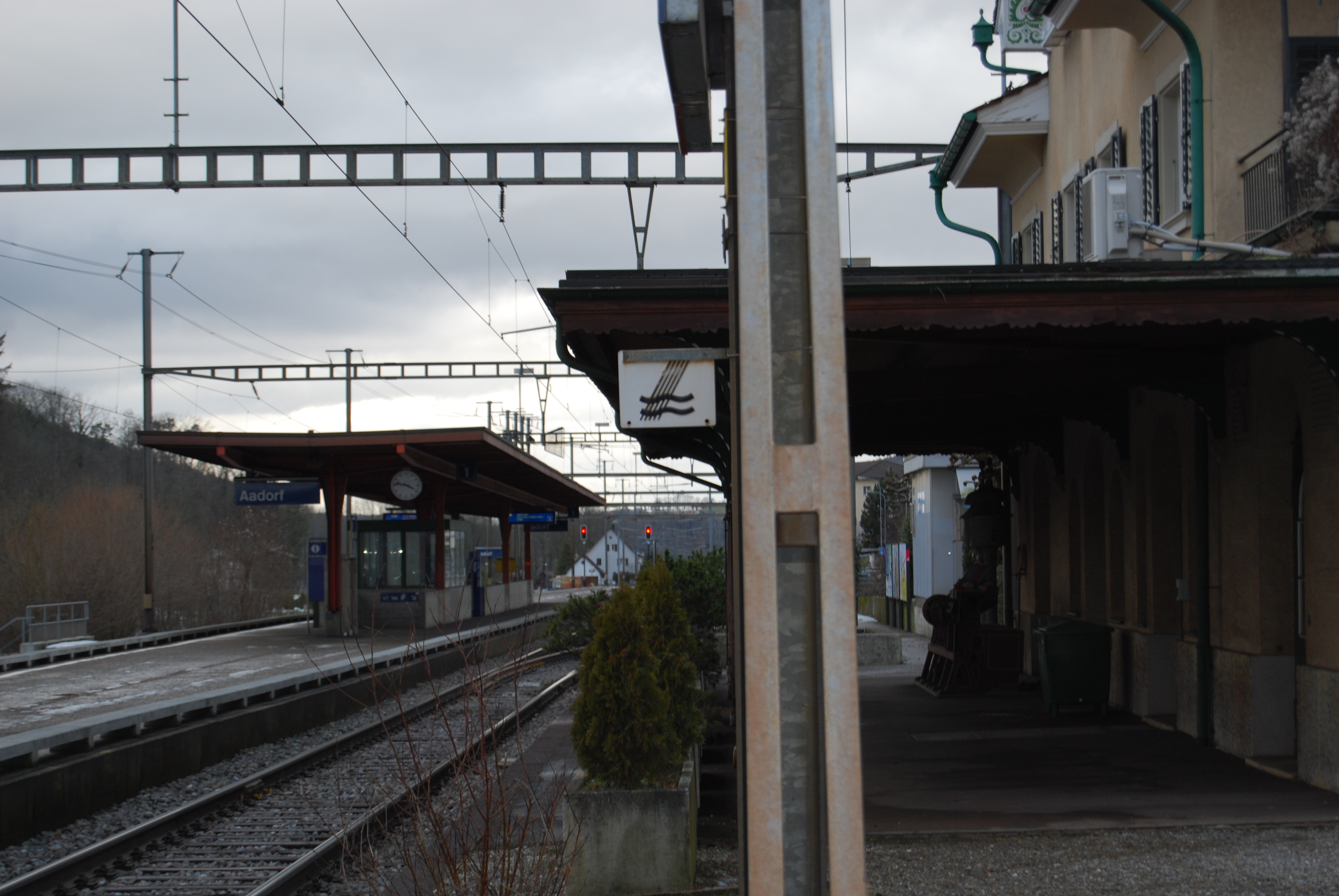 Train station of Aadorf, canton of Thurgovia, SwitzerlandEsperanto: Stacidomo de Aadorf, Kantono Turgovio, Svislando